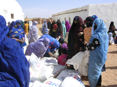 Original caption states "USAID-supplied bread flour being distributed to mothers and children in Dakhla refugee camp", located in southwestern Algeria, Sahara Desert.